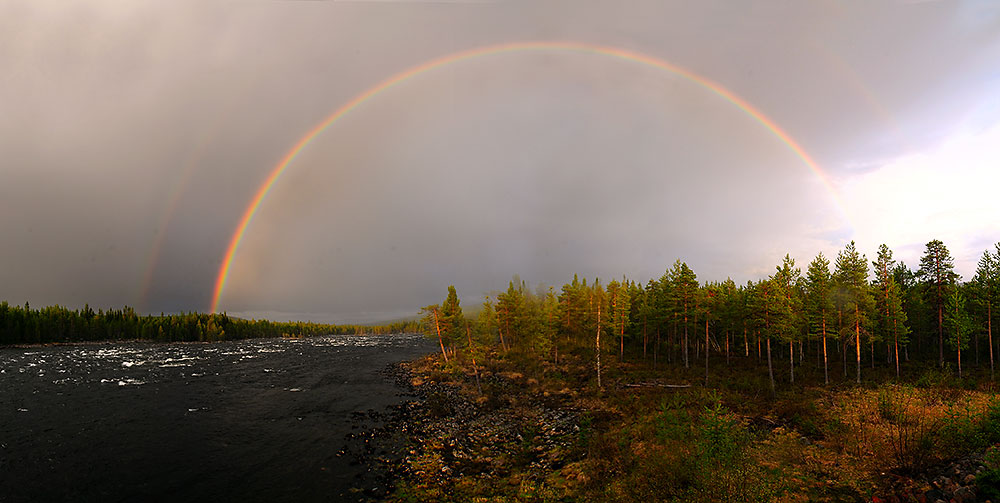 Rainbow over Pite river in Lappland Sweden, seen from the new Burmabridge at the E45